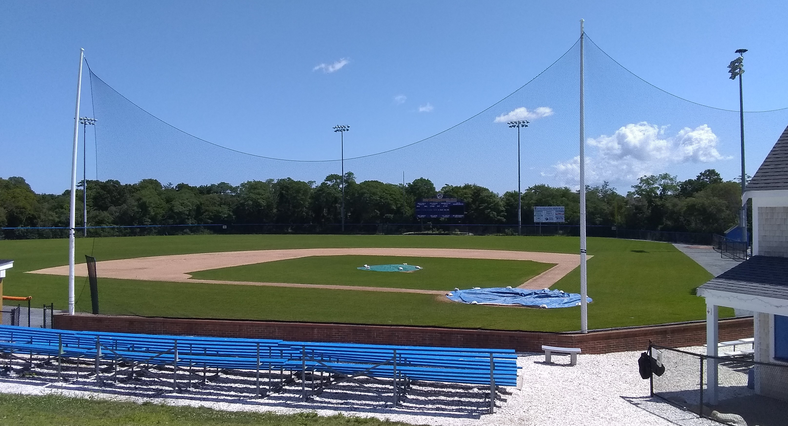 View of McKeon Park, Hyannis, Massachusetts, 2019